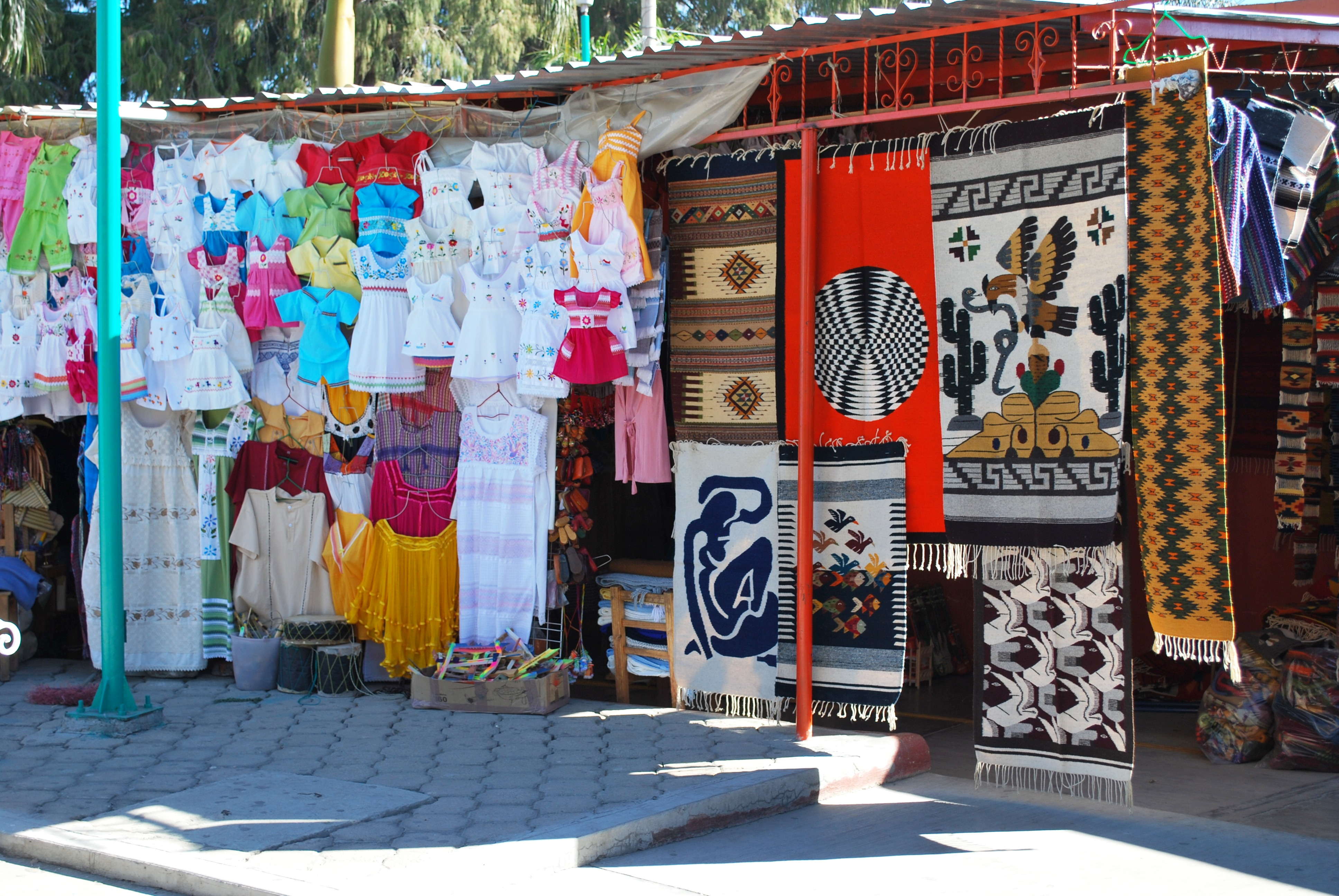 Souveniers for sale at the crafts market in Santa Maria del Tule, Oaxaca, Mexico